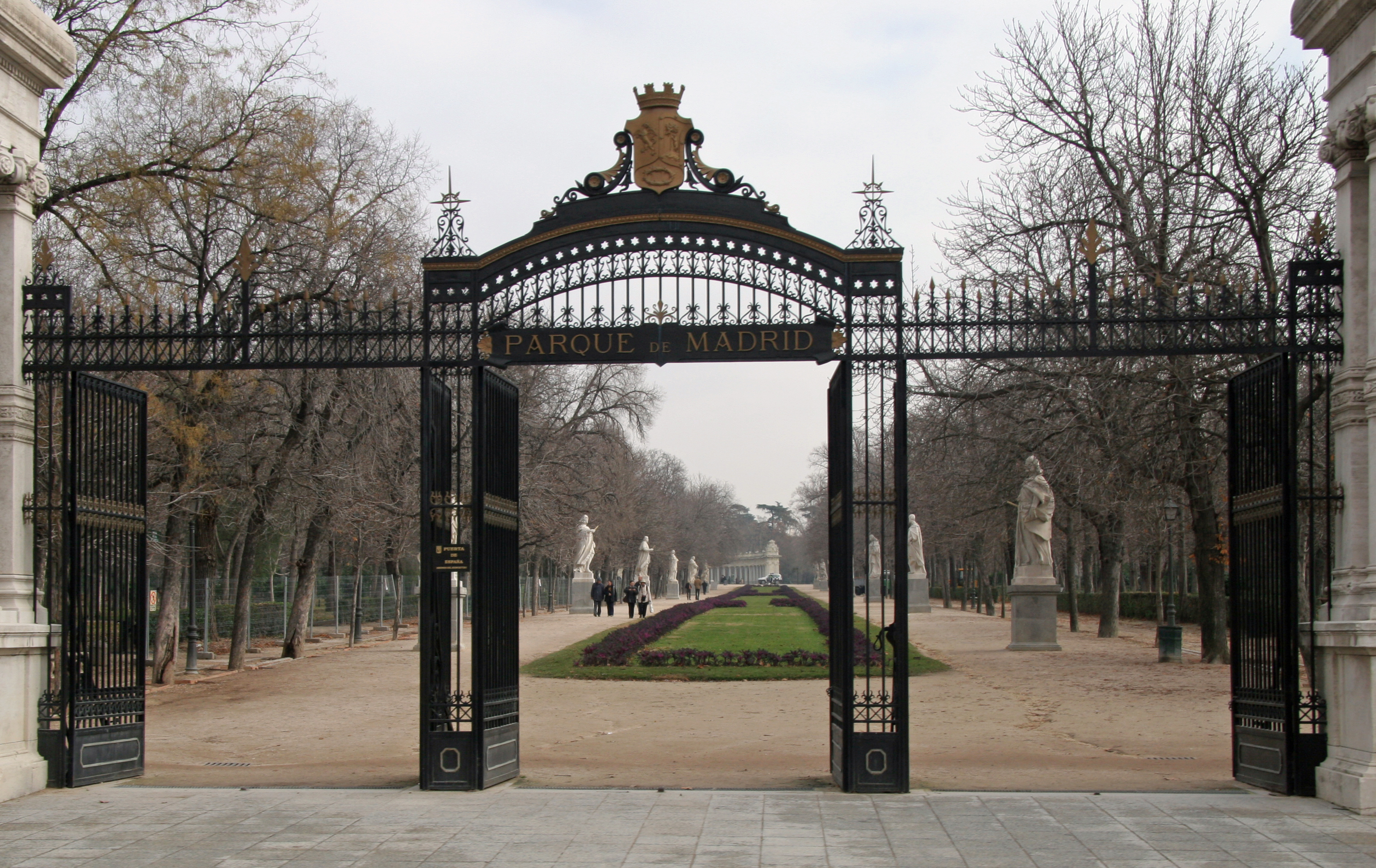 View of Puerta de España. One of the entrances of the Retiro Park (Jardines del Buen Retiro) in Madrid (Spain). Projected by architect José Urioste y Velada and built in 1893. In the background, Paseo de la Argentina (a walk).